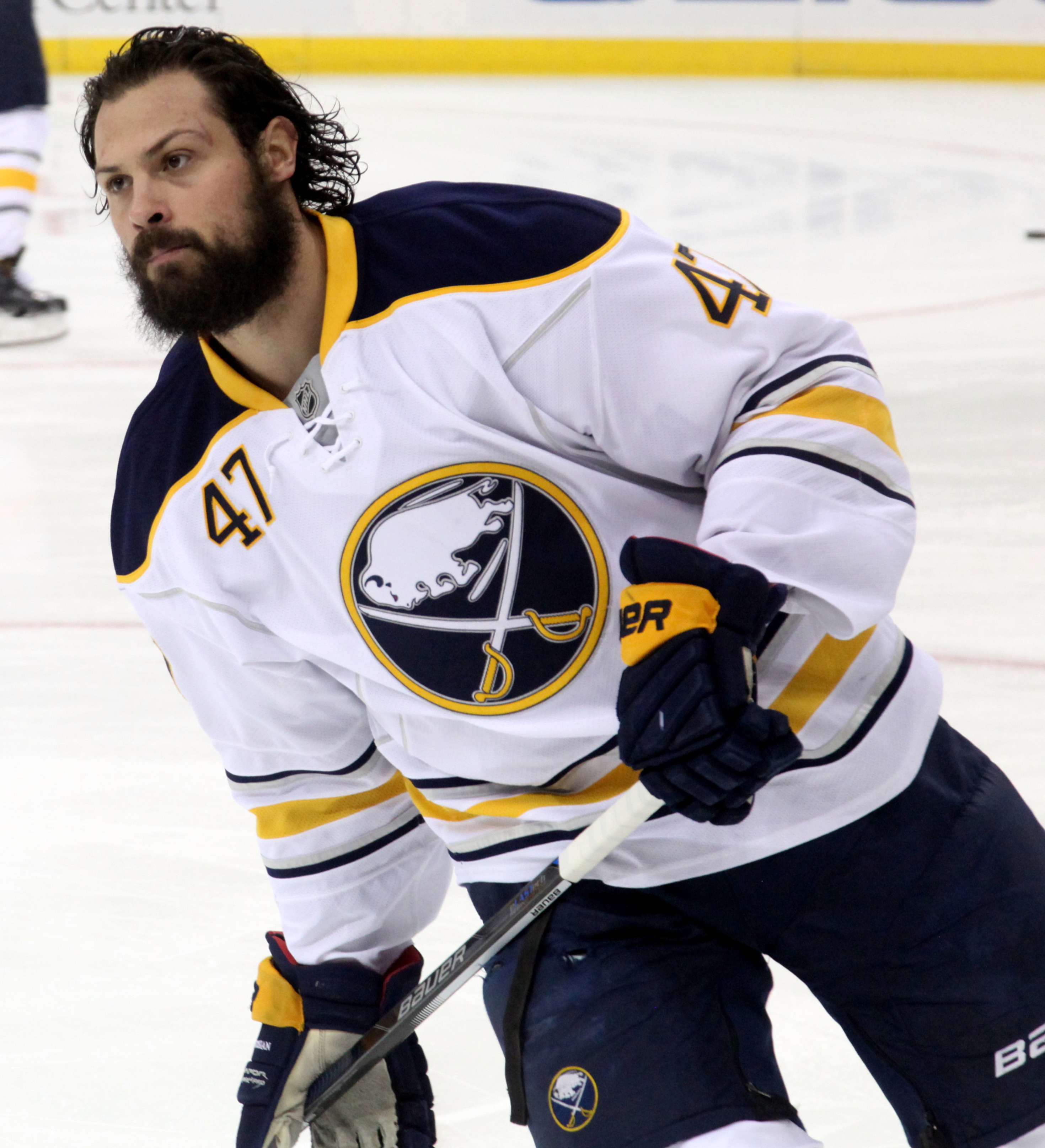 Zach Bogosian in April 2016.